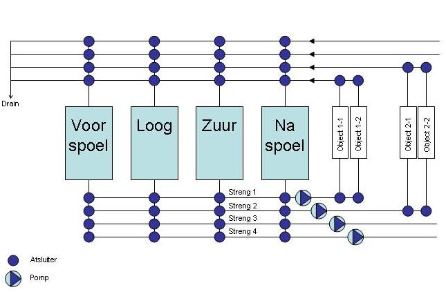 Design of a CIP system